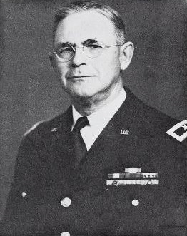 Dana True Merrill (US Army Brigadier General)